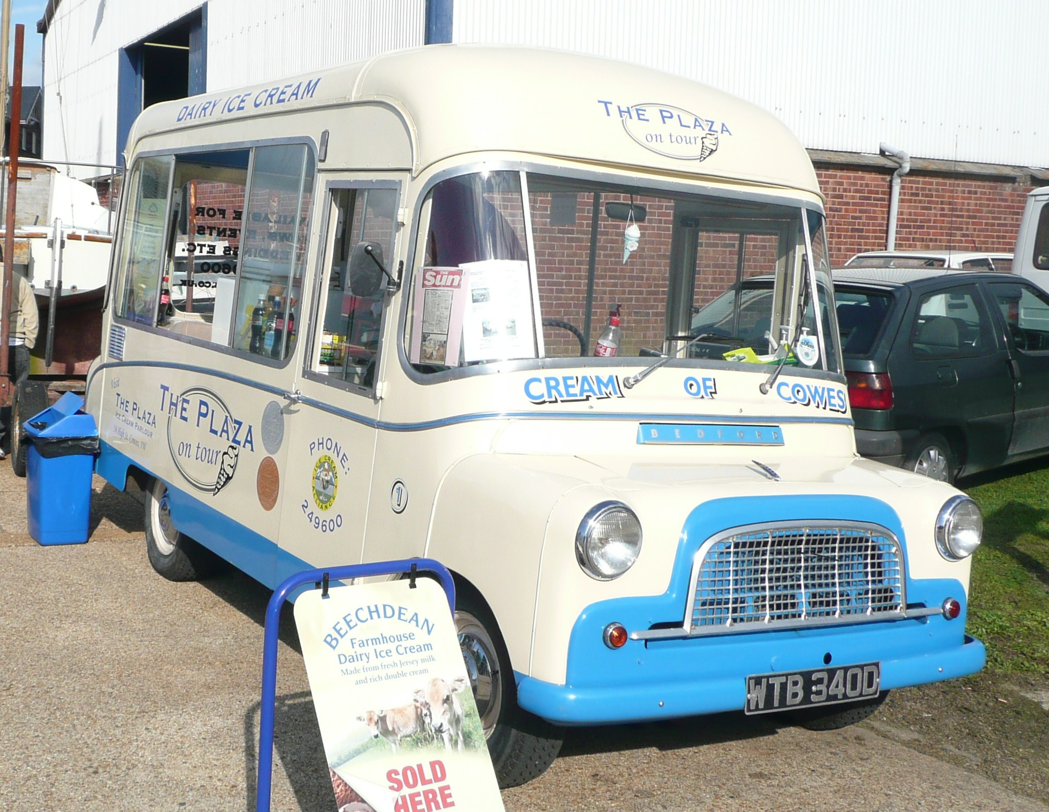 A "Cream of Cowes" ice cream van at the 2008 Isle of Wight bus museum running day.